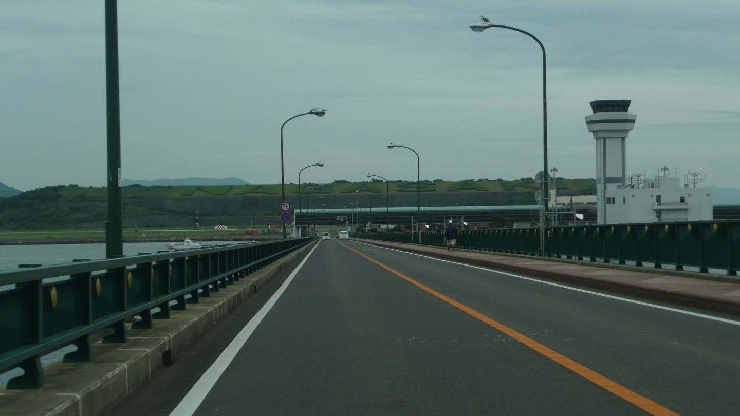 Nagasaki Prefectural Road 38 (Mishima Ohashi Bridge - Omura, Nagasaki, Japan)